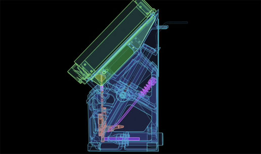 This is a picture taken from an animation that shows NASA's Phoenix Lander's Robotic Arm scoop delivering a sample to the Thermal and Evolved-Gas Analyzer (TEGA) and how samples are analyzed within the instrument.